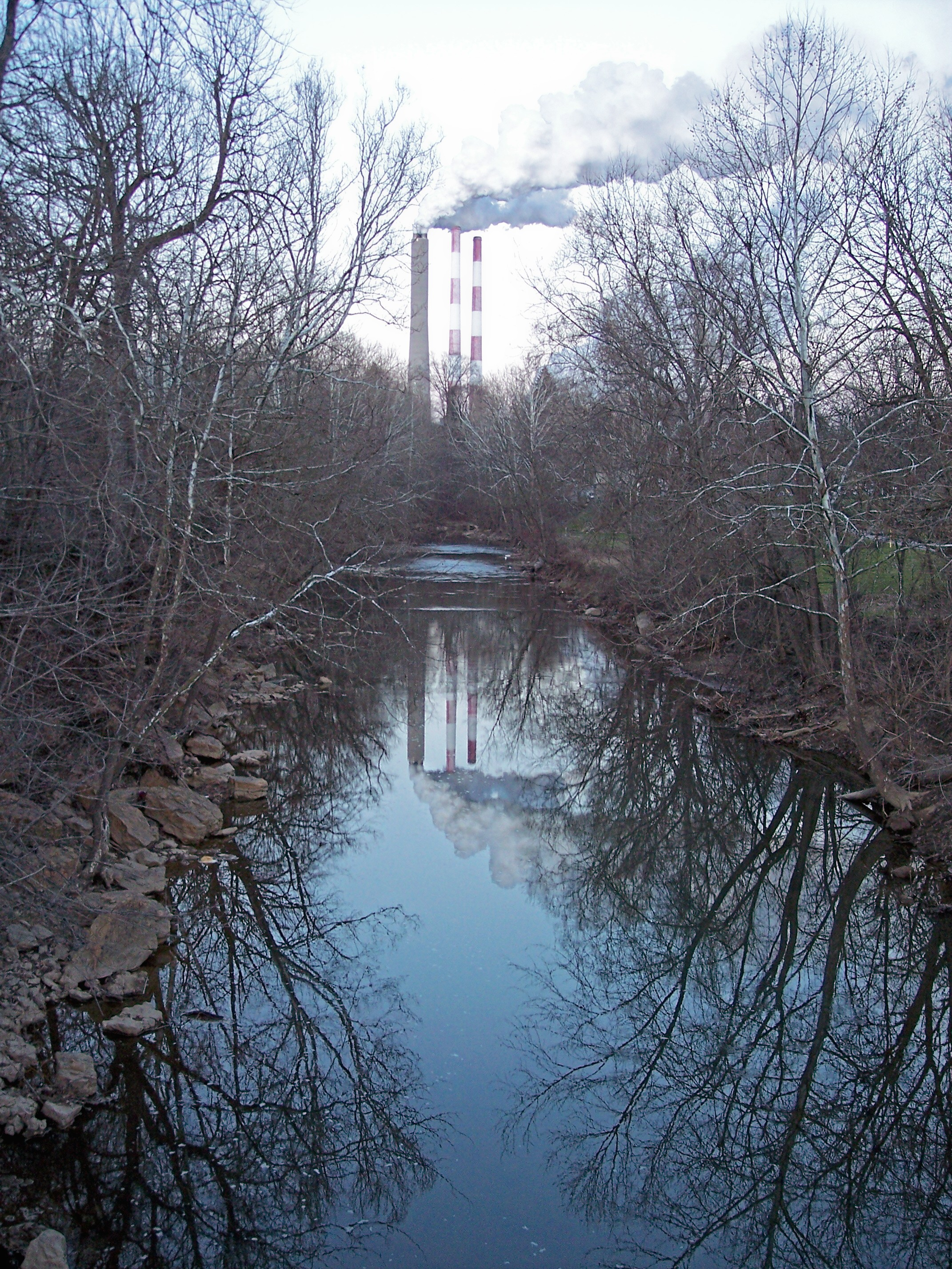 Tenmile Creek as viewed downstream in Lumberport, West Virginia